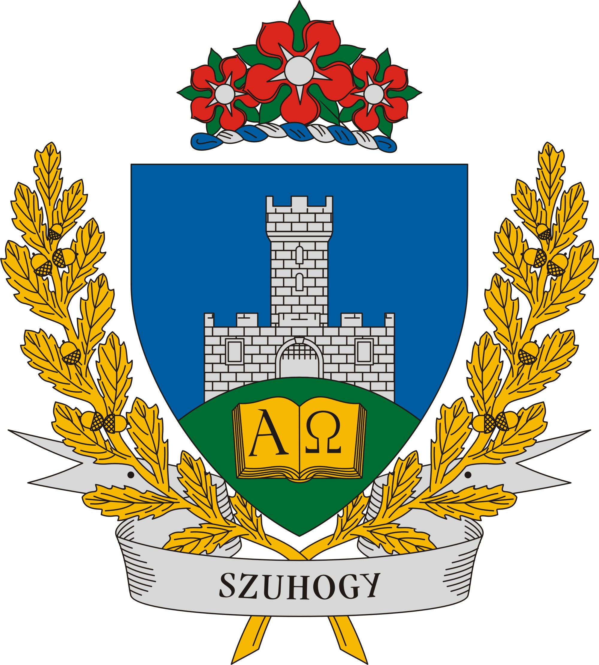 Coat of arms of Szuhogy, Hungary